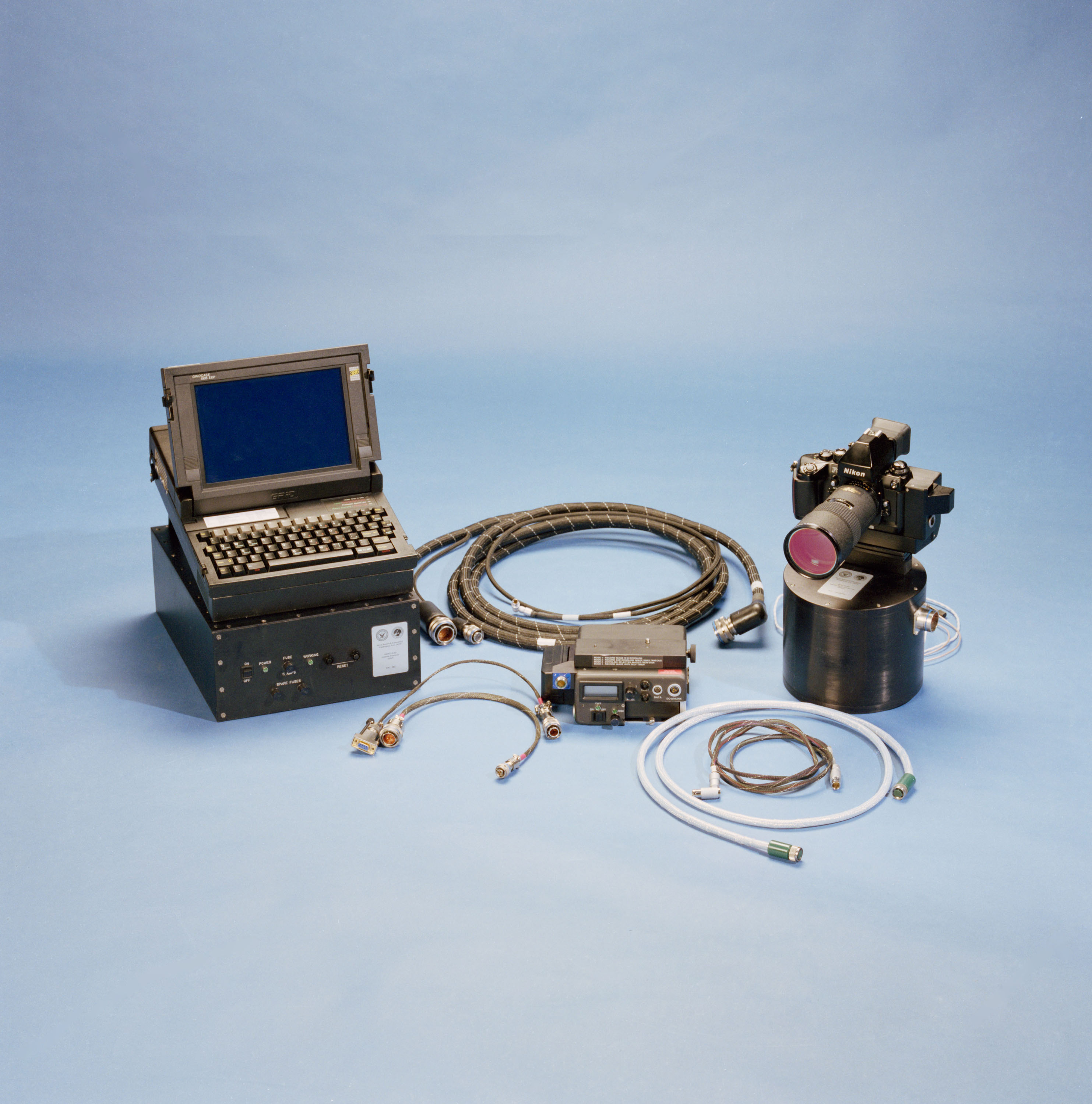 STS-53 Discovery, Orbiter Vehicle (OV) 103, Department of Defense (DOD) mission Hand-held Earth-oriented Real-time Cooperative, User-friendly, Location, targeting, and Environmental System (Hercules) spaceborne experiment equipment is documented in this table top view. HERCULES is a joint NAVY-NASA-ARMY payload designed to provide real-time high resolution digital electronic imagery and geolocation (latitude and longitude determination) of earth surface targets of interest. HERCULES system consists of (from left to right): a specially modified GRID Systems portable computer mounted atop NASA developed Playback-Downlink Unit (PDU) and the Naval Research Laboratory (NRL) developed HERCULES Attitude Processor (HAP); the NASA-developed Electronic Still Camera (ESC) Electronics Box (ESCEB) including removable imagery data storage disks and various connecting cables; the ESC (a NASA modified Nikon F-4 camera) mounted atop the NRL HERCULES Inertial Measurement Unit (HIMU) containing the three